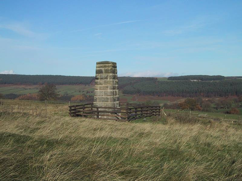 Leeds Pals Memorial at Breary Banks in Colsterdale.